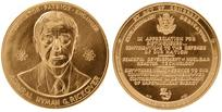 Rickover Congressional Gold Medal (2nd award, awarded 1982)